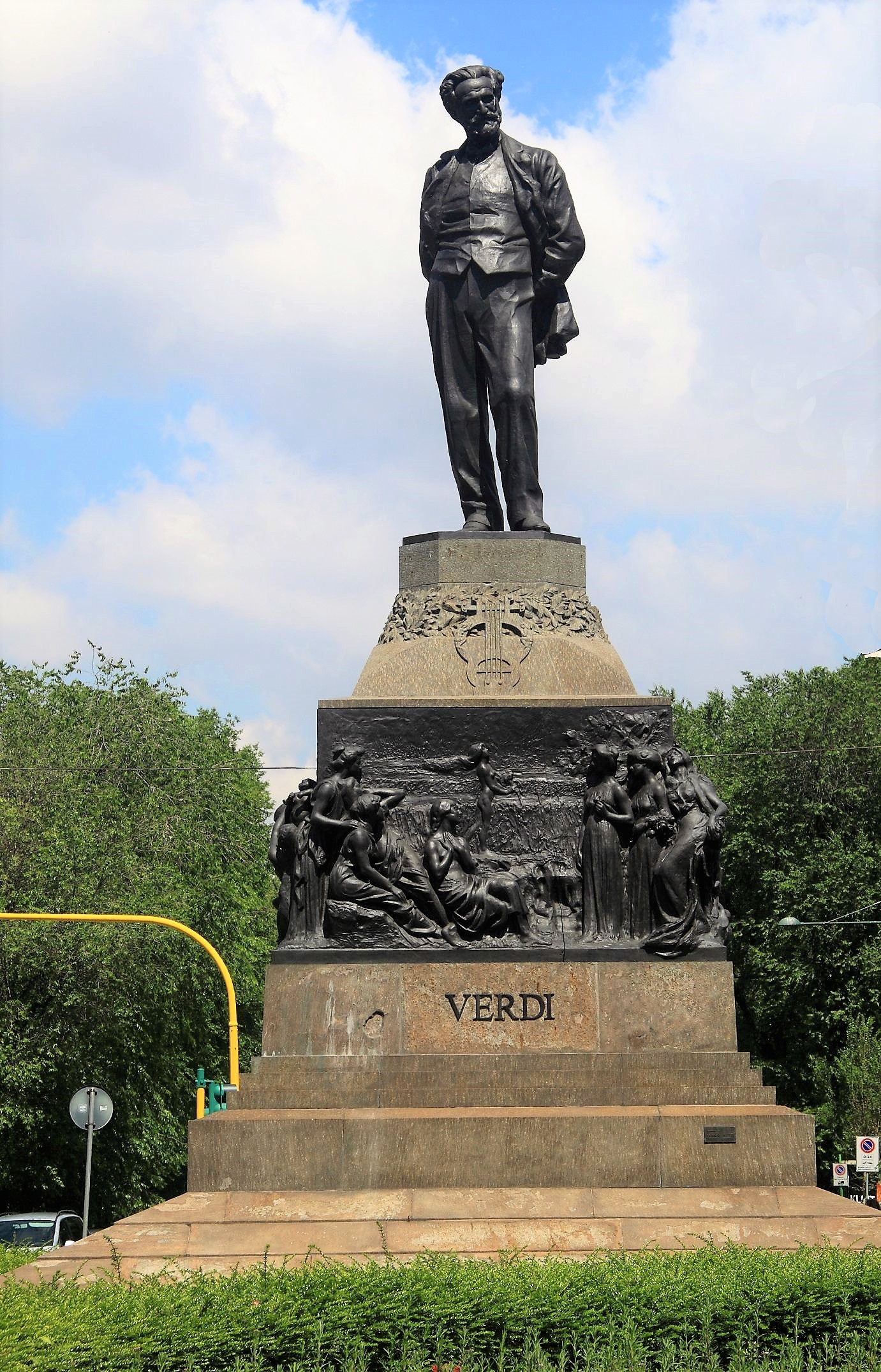 Statue of Giuseppe Verdi Italian composer This is a photo of a monument which is part of cultural heritage of Italy.